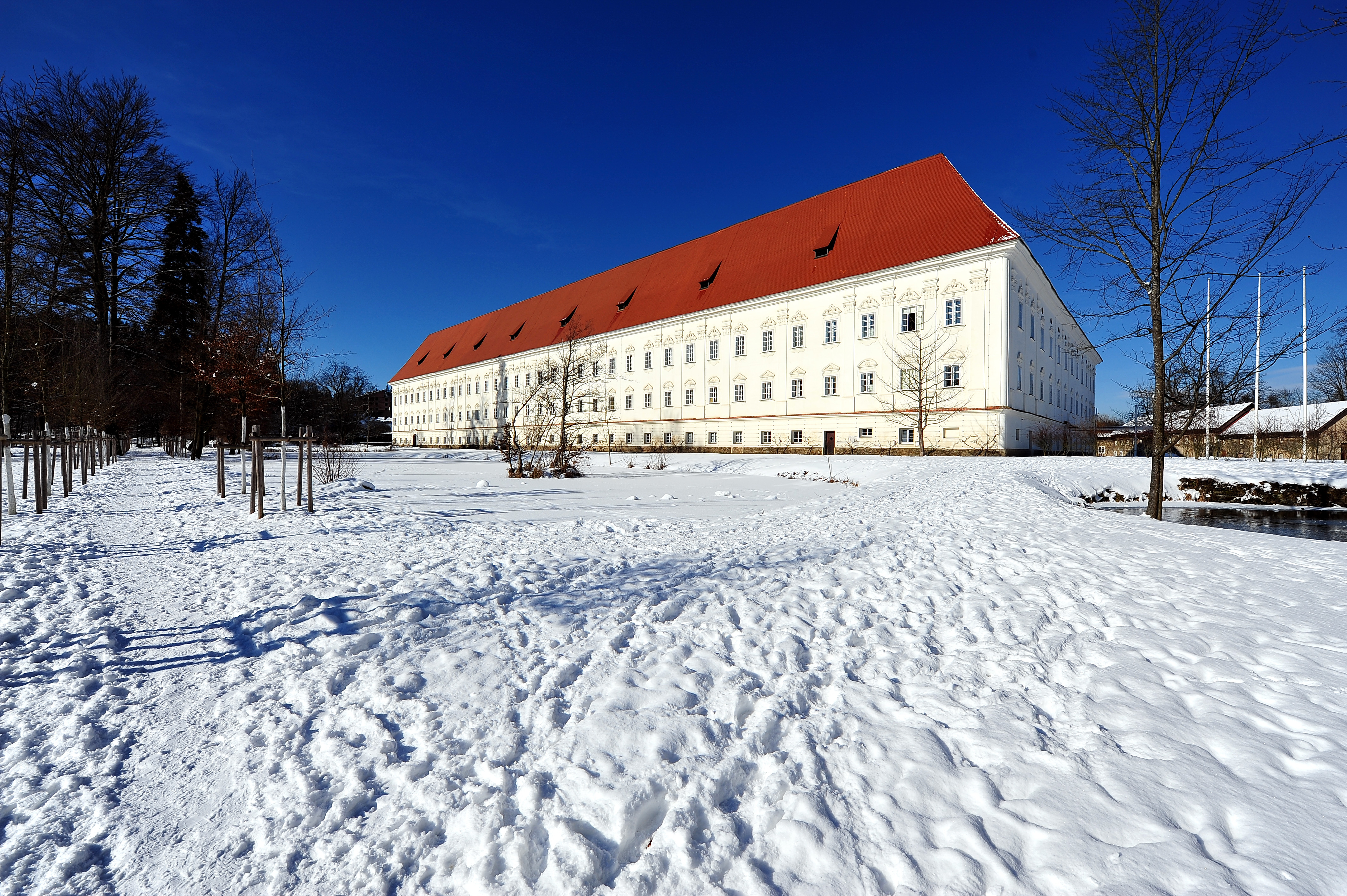 Southeastern view at the cistercian monastery, 13th district Viktring, municipality Klagenfurt on the Lake Woerth, Carinthia, Austria